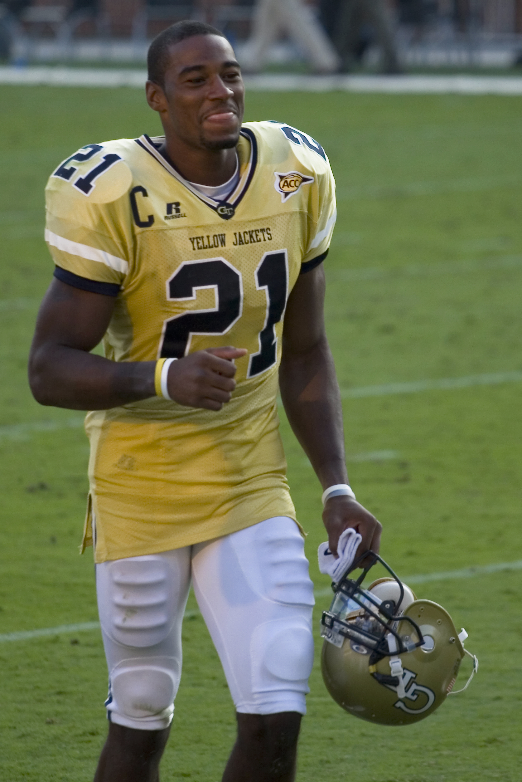 Georgia Tech vs. Samford, September 9th 2006, Final Score: 38-6